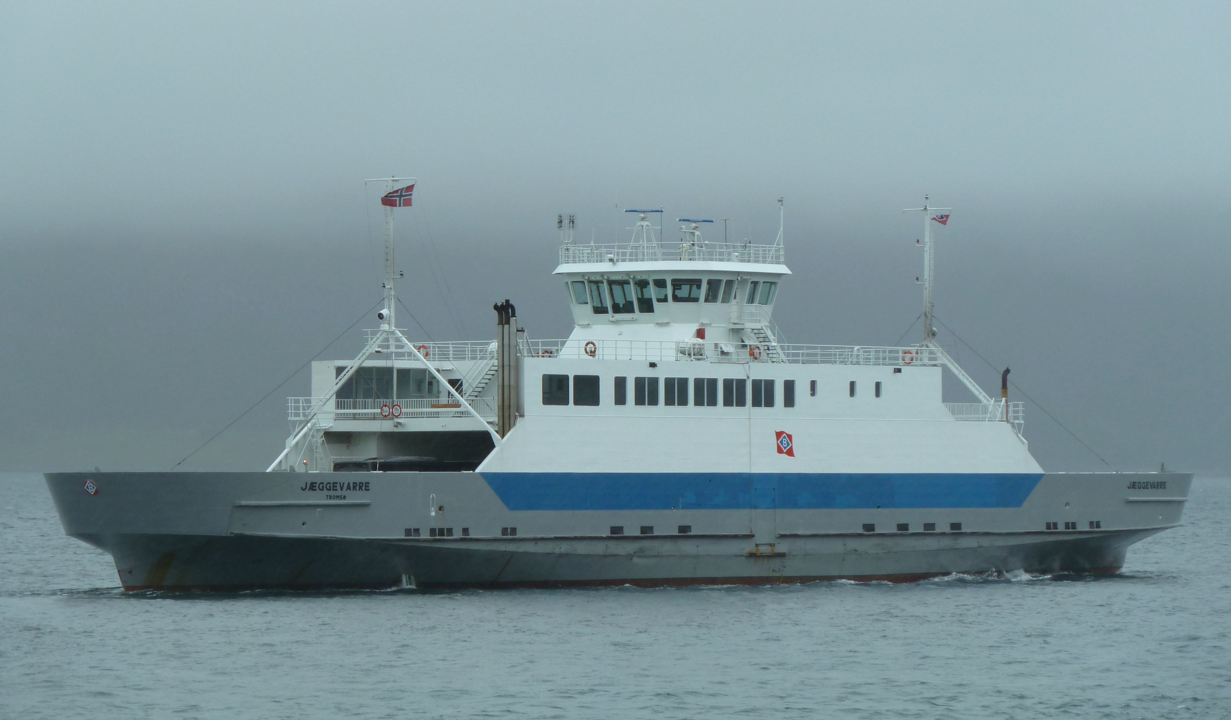 The Norwegian car ferry MF «Jæggevarre», owned by Bjørklids Ferry Company in Troms, on it's way from Svensby to Breivikeidet crossing Ullsfjorden